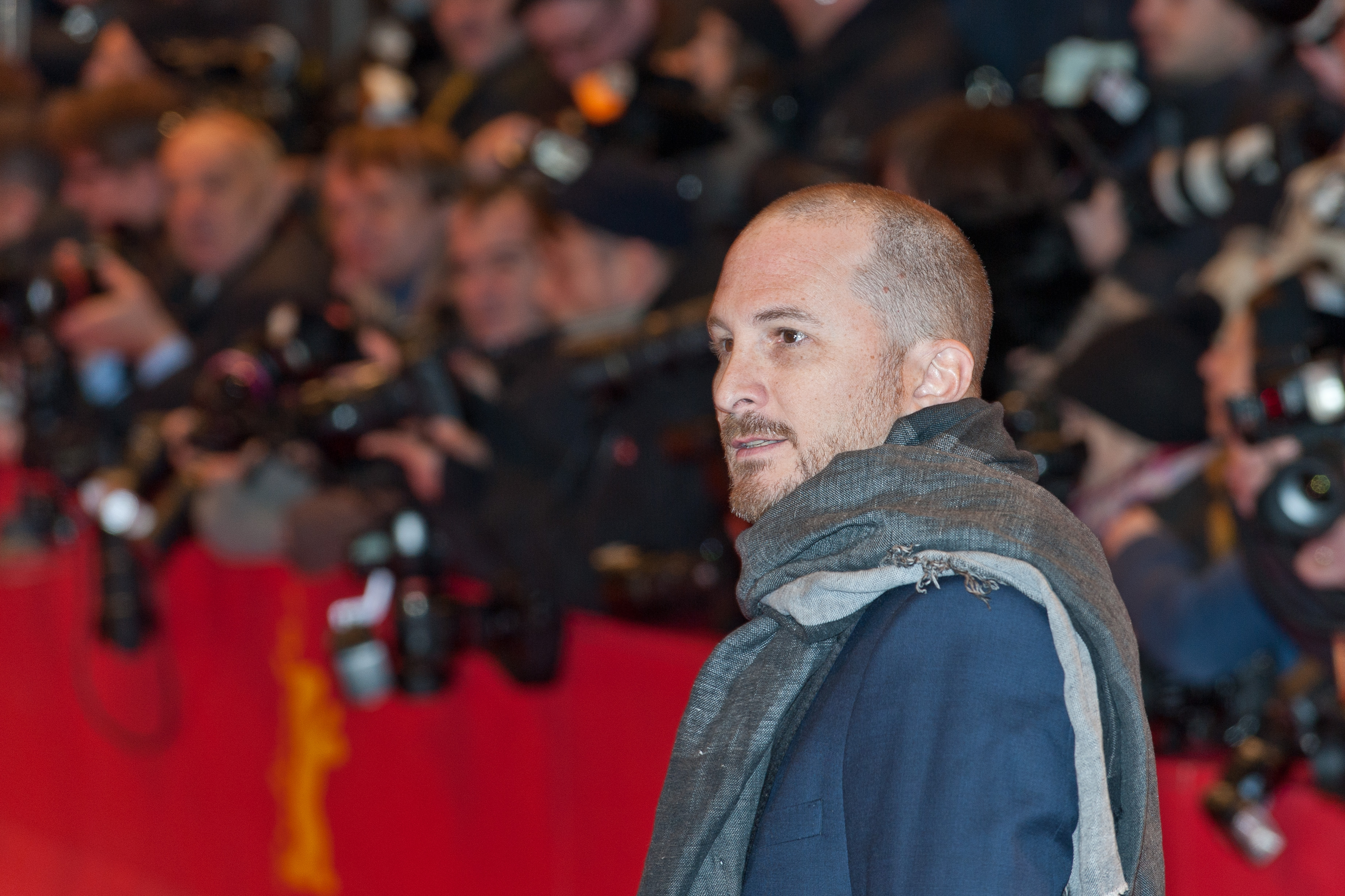 Jury president American director and producer Darren Aronofsky Opening of the 65th Berlin International Film Festival at the Berlinale Palast